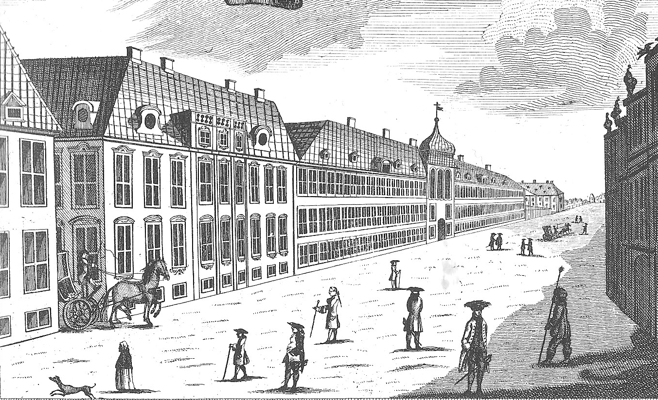 Norgesgade - now Bredgade - with Moltkes Palæ in Copenhagen, Denmark